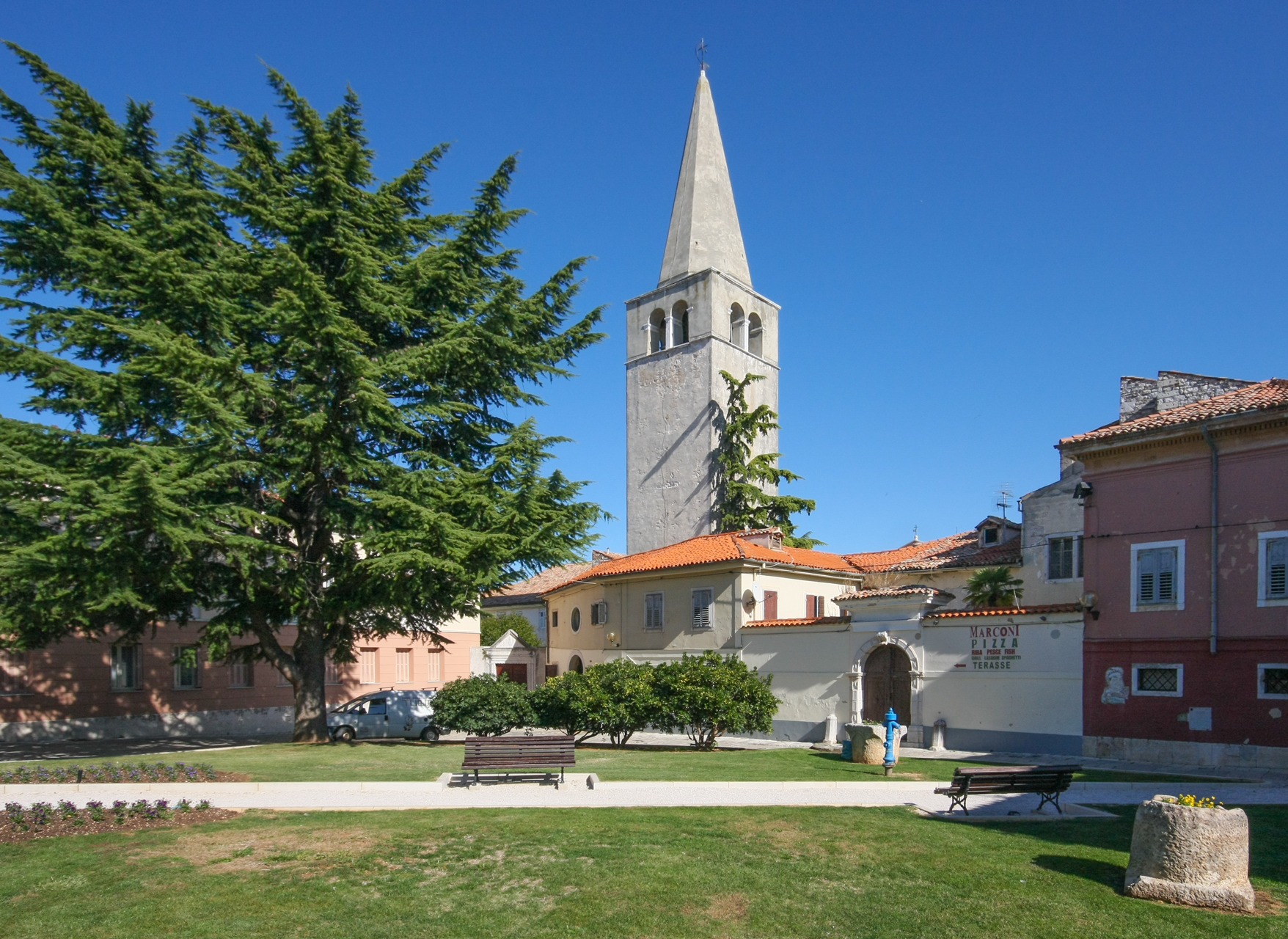 Belltower of the Euphrasian Basilica in Poreč, Croatia